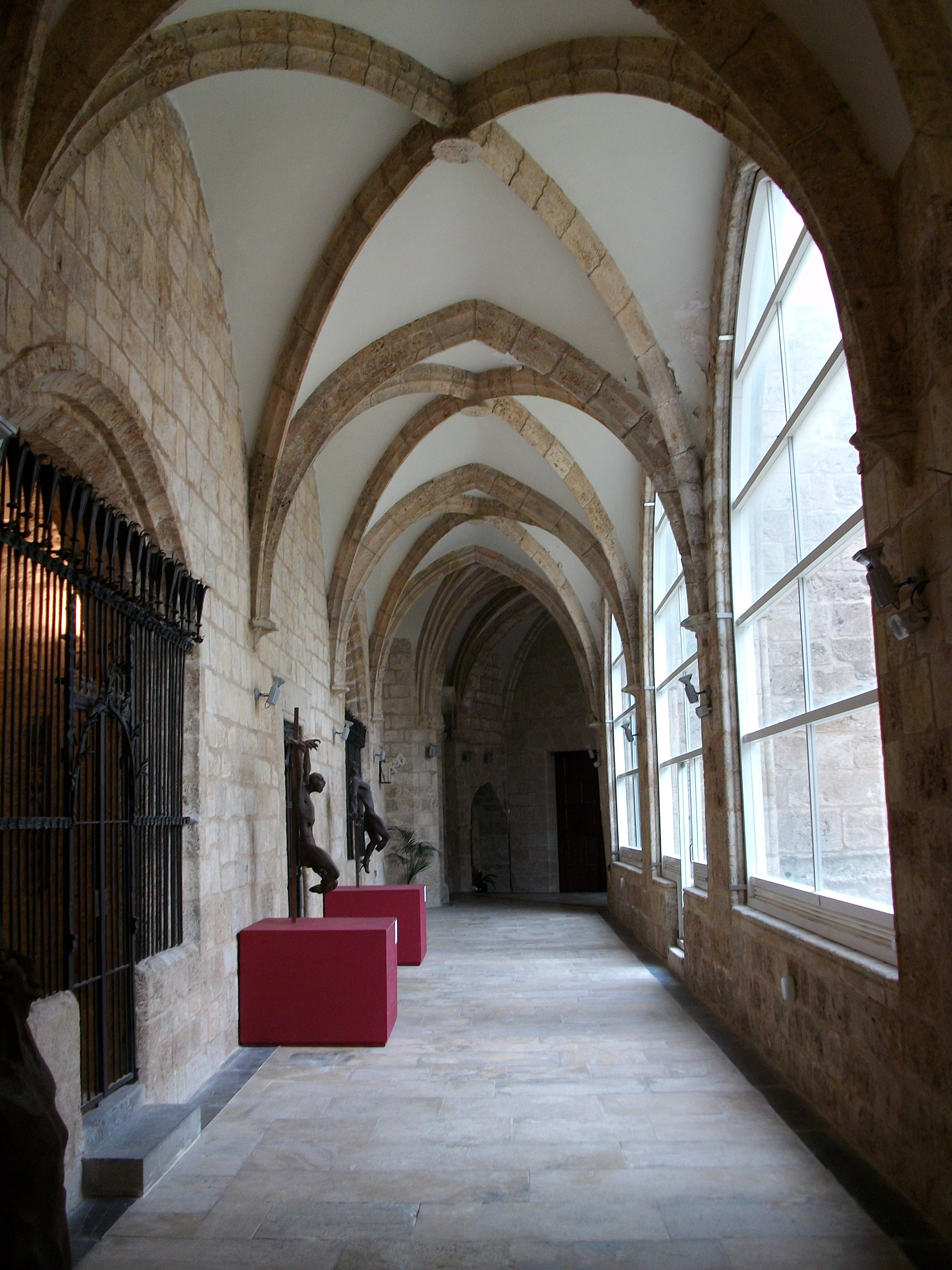 Cloister of the Sogorb Cathedral.